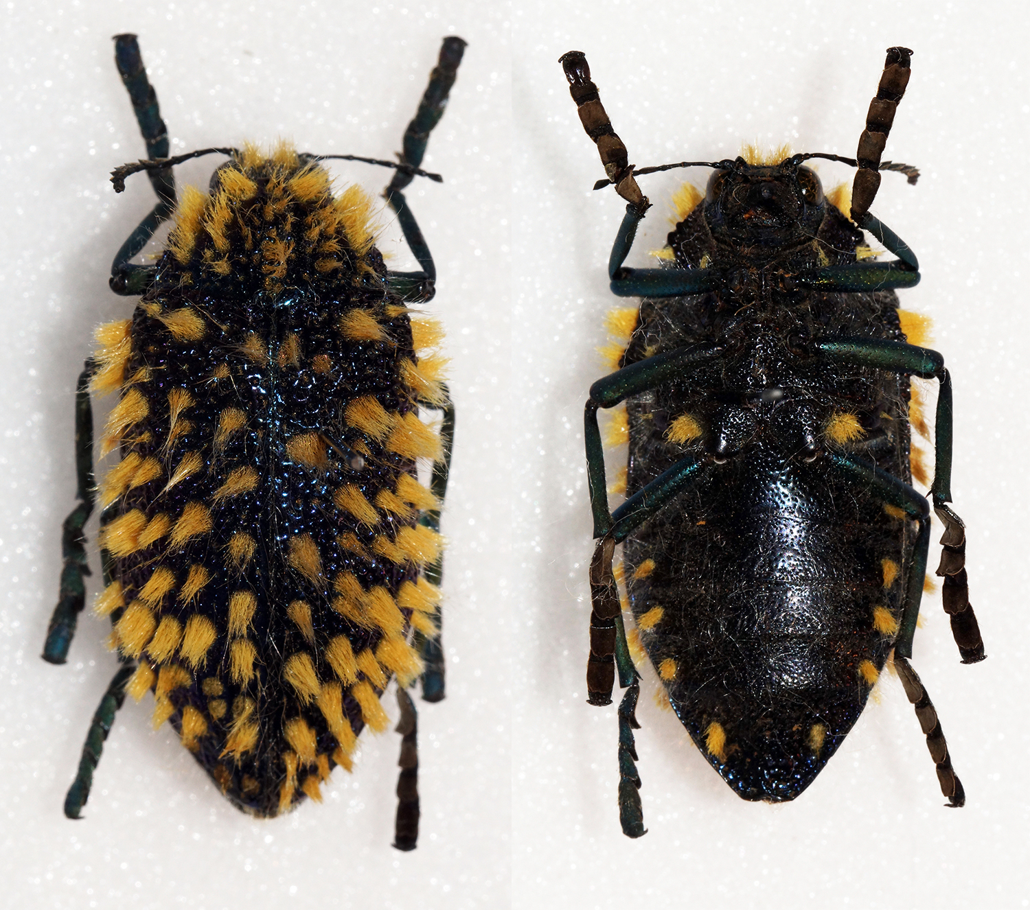 Laporte,1835 Sex: Female Data: 12-1986 - Springbok - Northern Cape - South Africa Size: 28mm